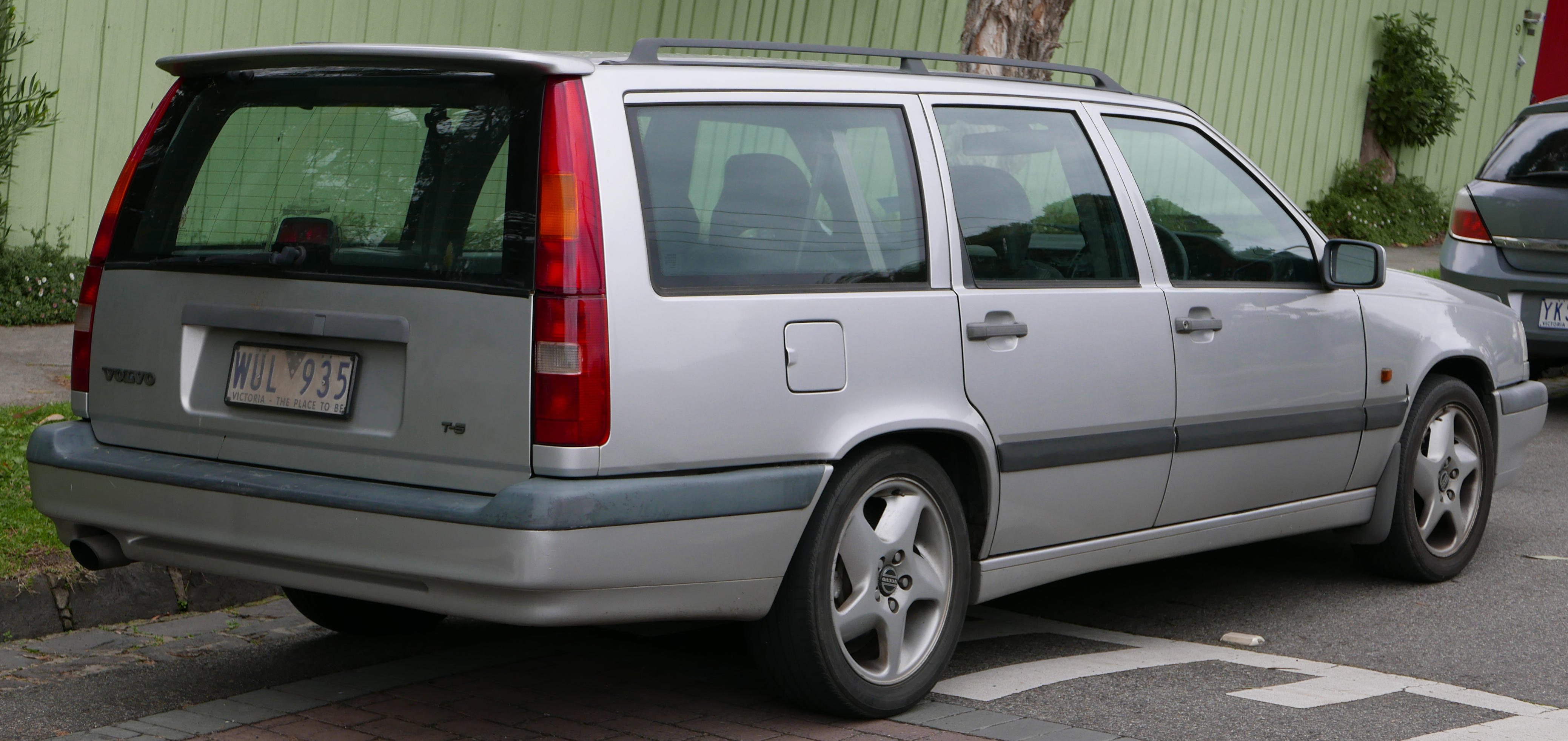 1994 Volvo 850 T-5 station wagon. Photographed in Kew, Victoria, Australia.